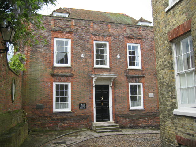 This photograph was taken by me in Rye in May 2005 and maybe used by Wikipedia. IXIA 14:00, 22 September 2006 (UTC)